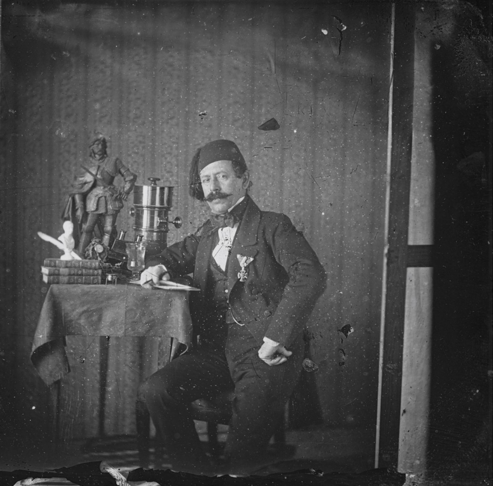 from [1] dead in 1899